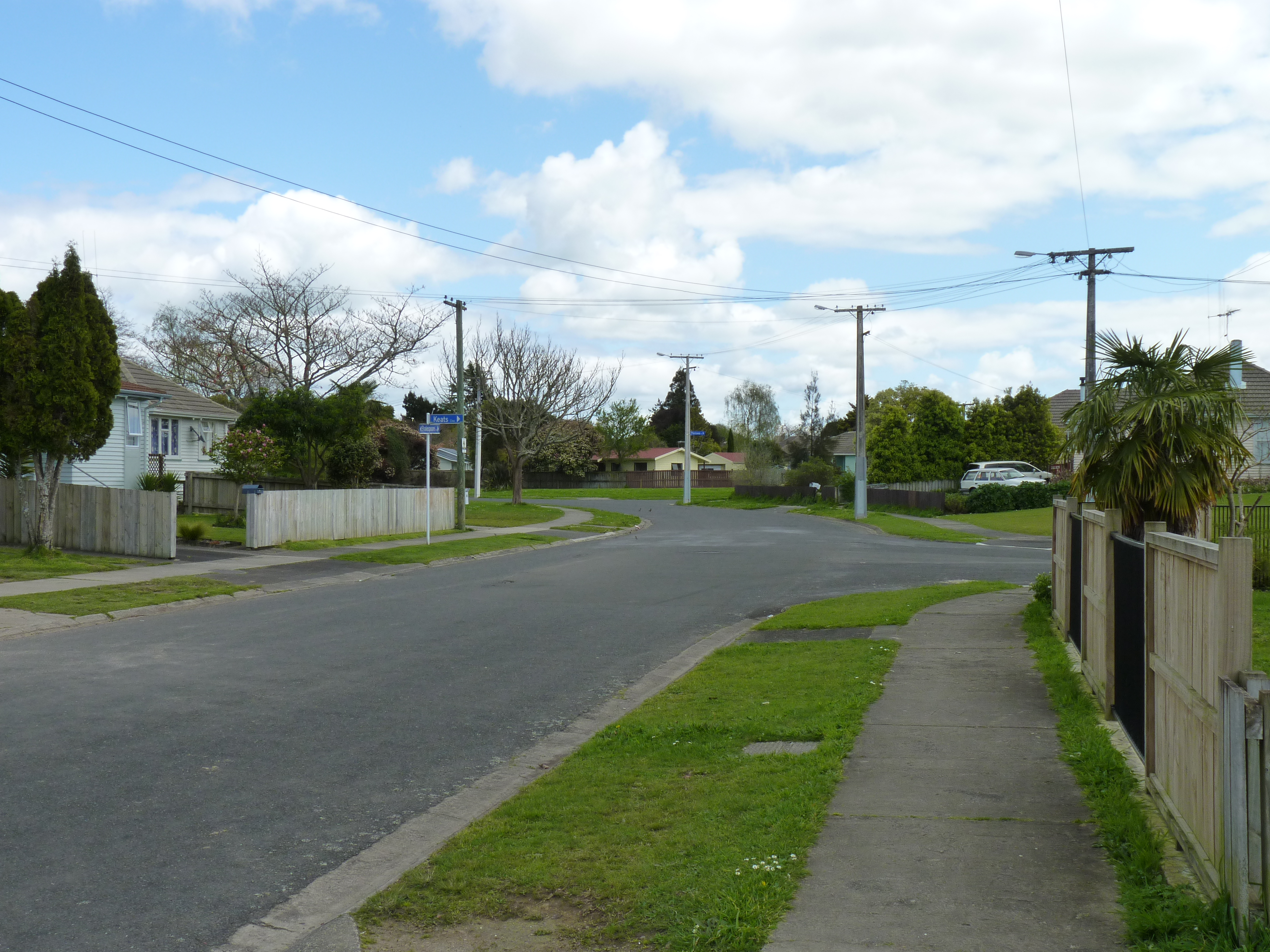 Poet's Corner in Enderley, Hamilton.